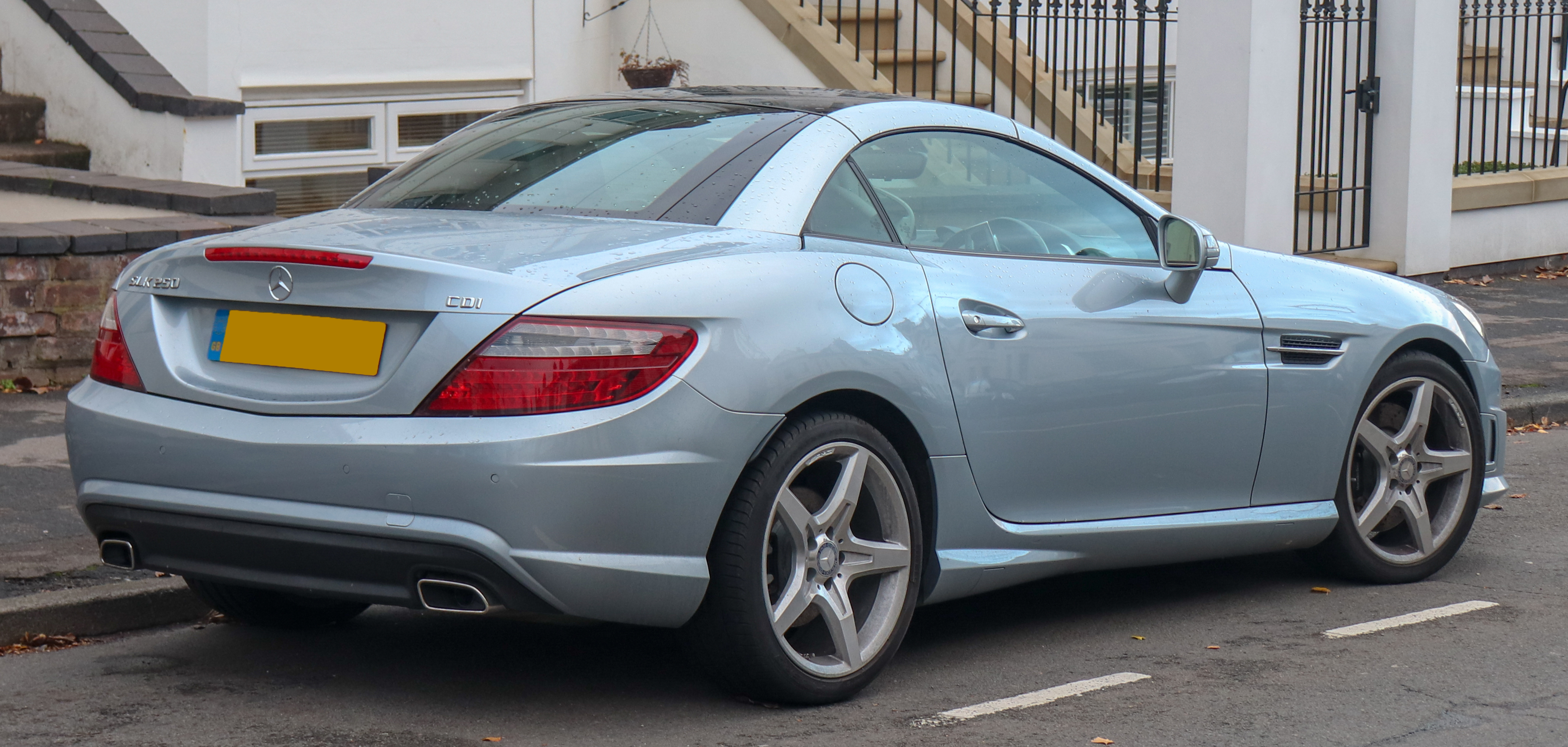 2015 Mercedes-Benz SLK250 AMG Sport CDi BlueTec 2.1 Rear Taken in Leamington Spa